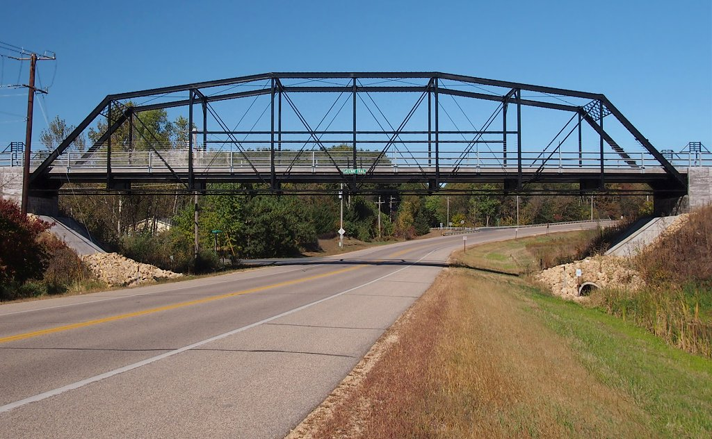 Bridge No. 5721, Stillwater, Minnesota, USA